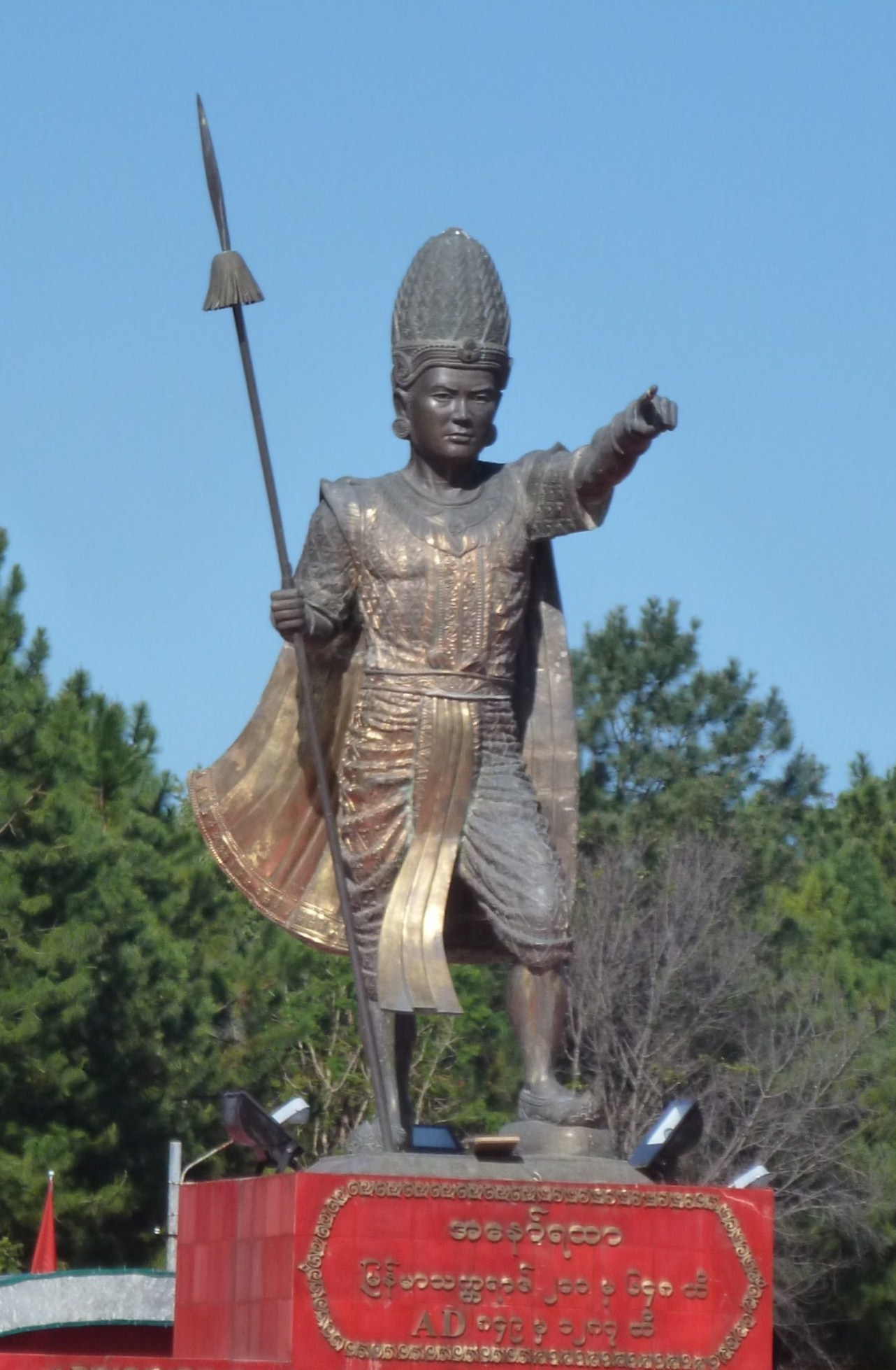 Statue of King Anawrahta in front of the Defence Services Academy